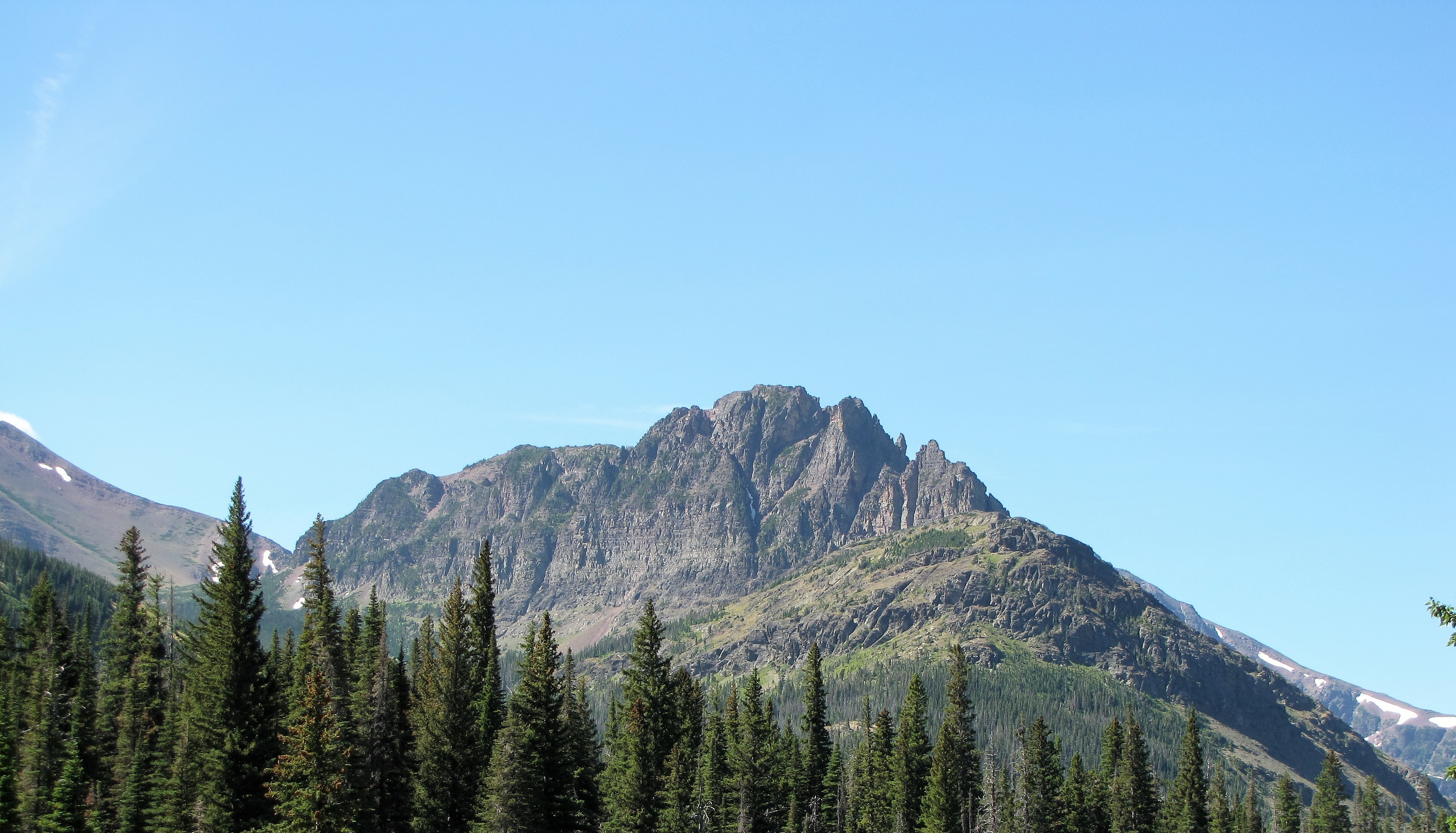 Never Laughs Mountain in Two Medicine region of Glacier National Park